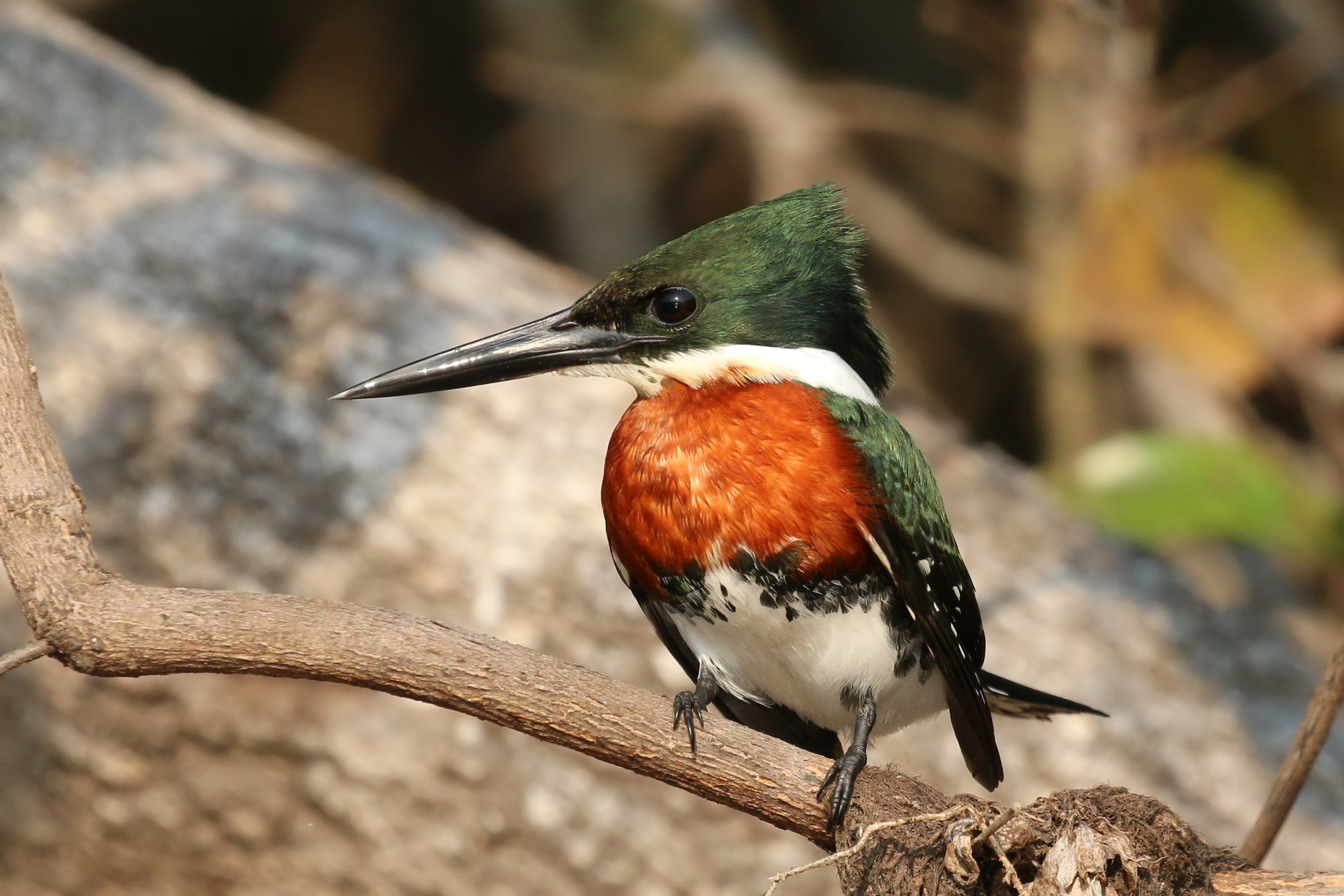 Green kingfisher (Chloroceryle americana mathewsii) male, the Pantanal, Brazil